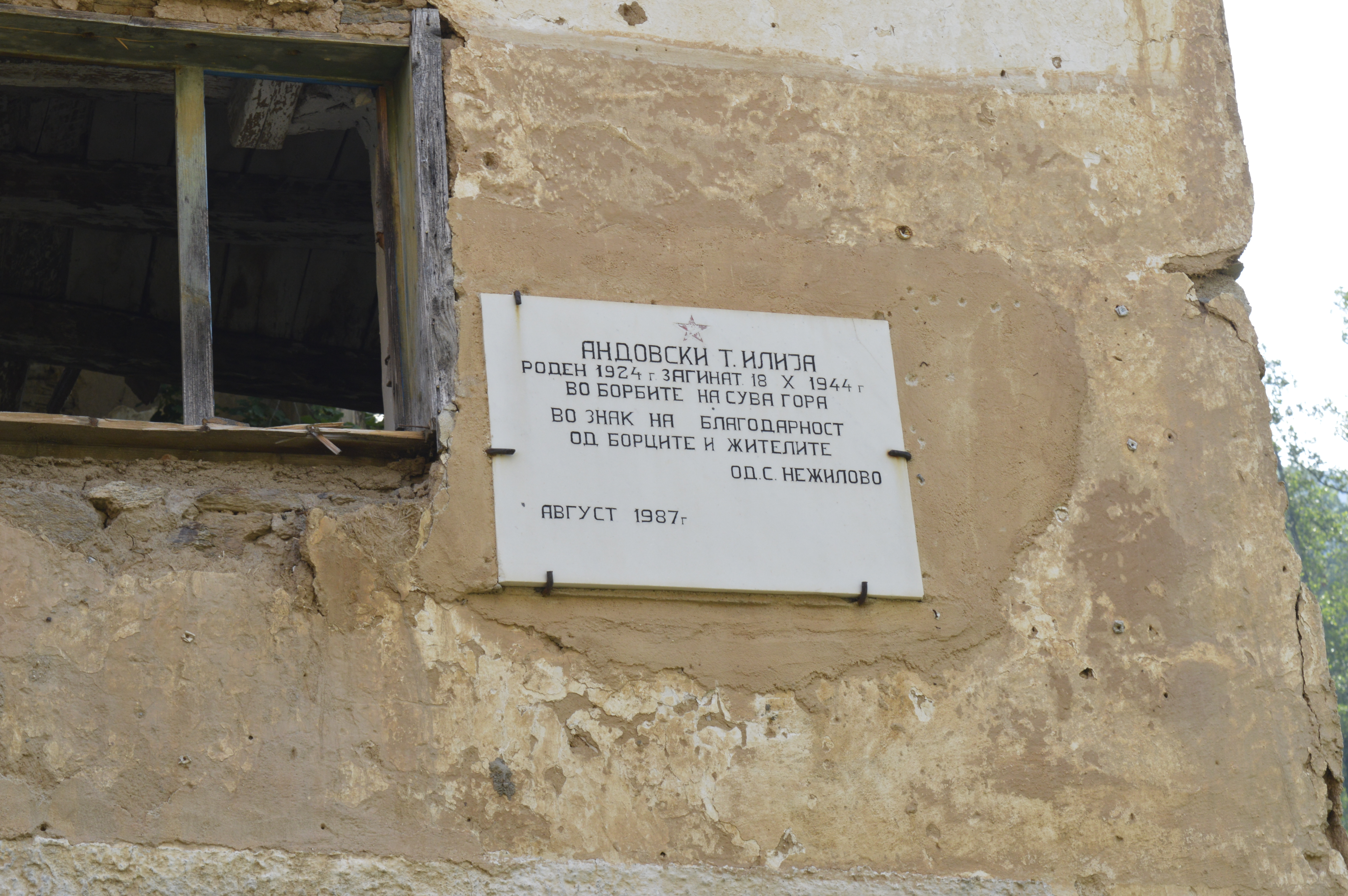 Memorial on the former primary school in the village Nežilovo